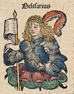 Woodcut from the Nuremberg Chronicle